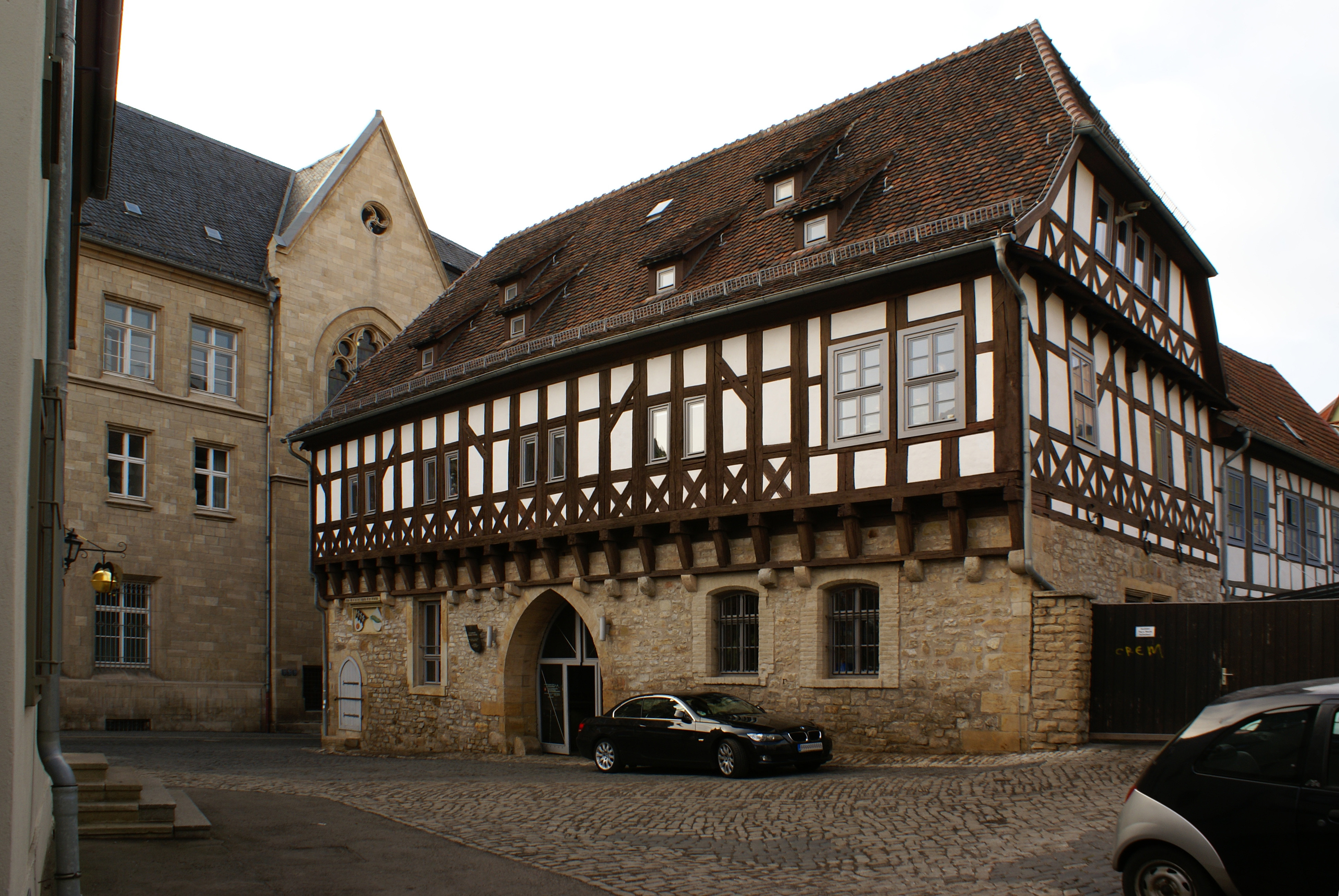 The house "Zum großen Paradies und Esel" - An der Stadtmünze, Erfurt, Thuringia, Germany.